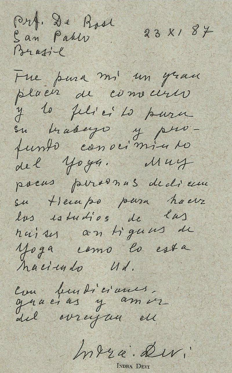 A book ISBN 852131266-0